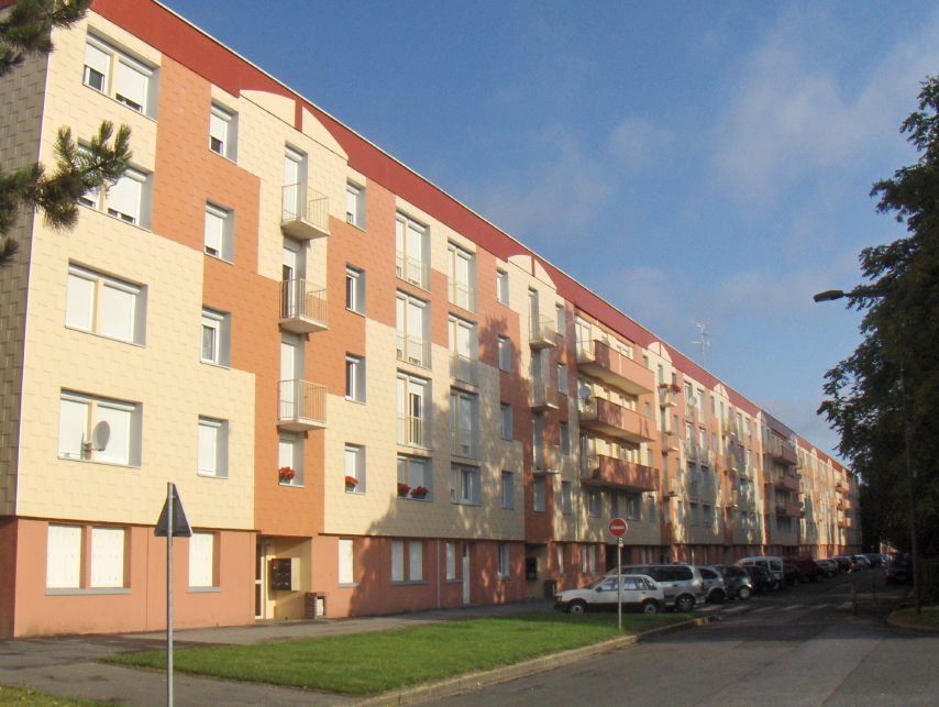 council housing in Quartier de Verdun, suburb of Chantilly